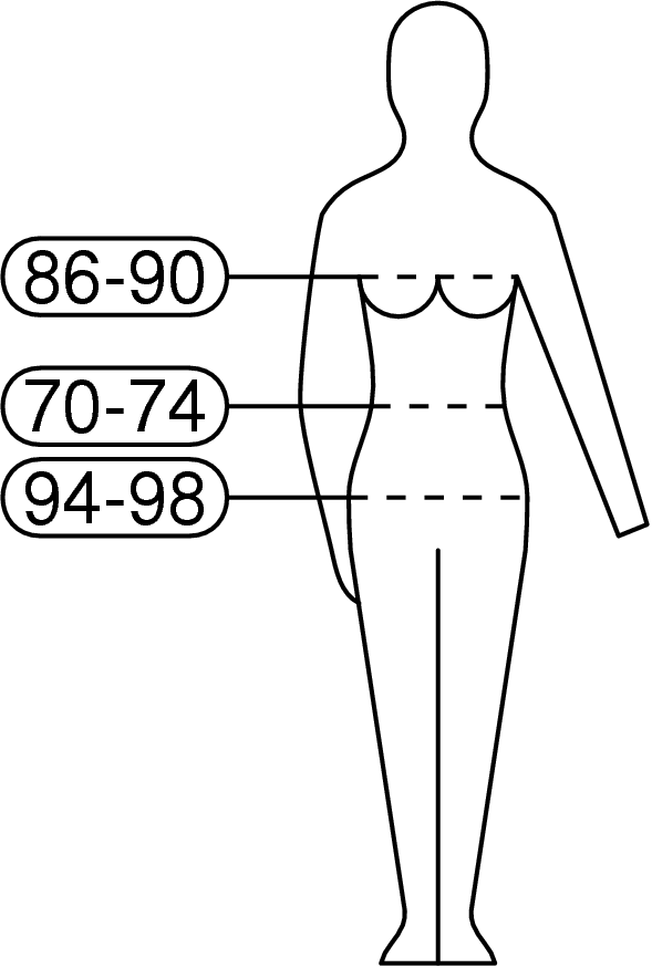 European Standard (EN-13402-2) for dress sizes, with primary and secondary body measurements. The pictogram shows a dress in size 88–72–96.